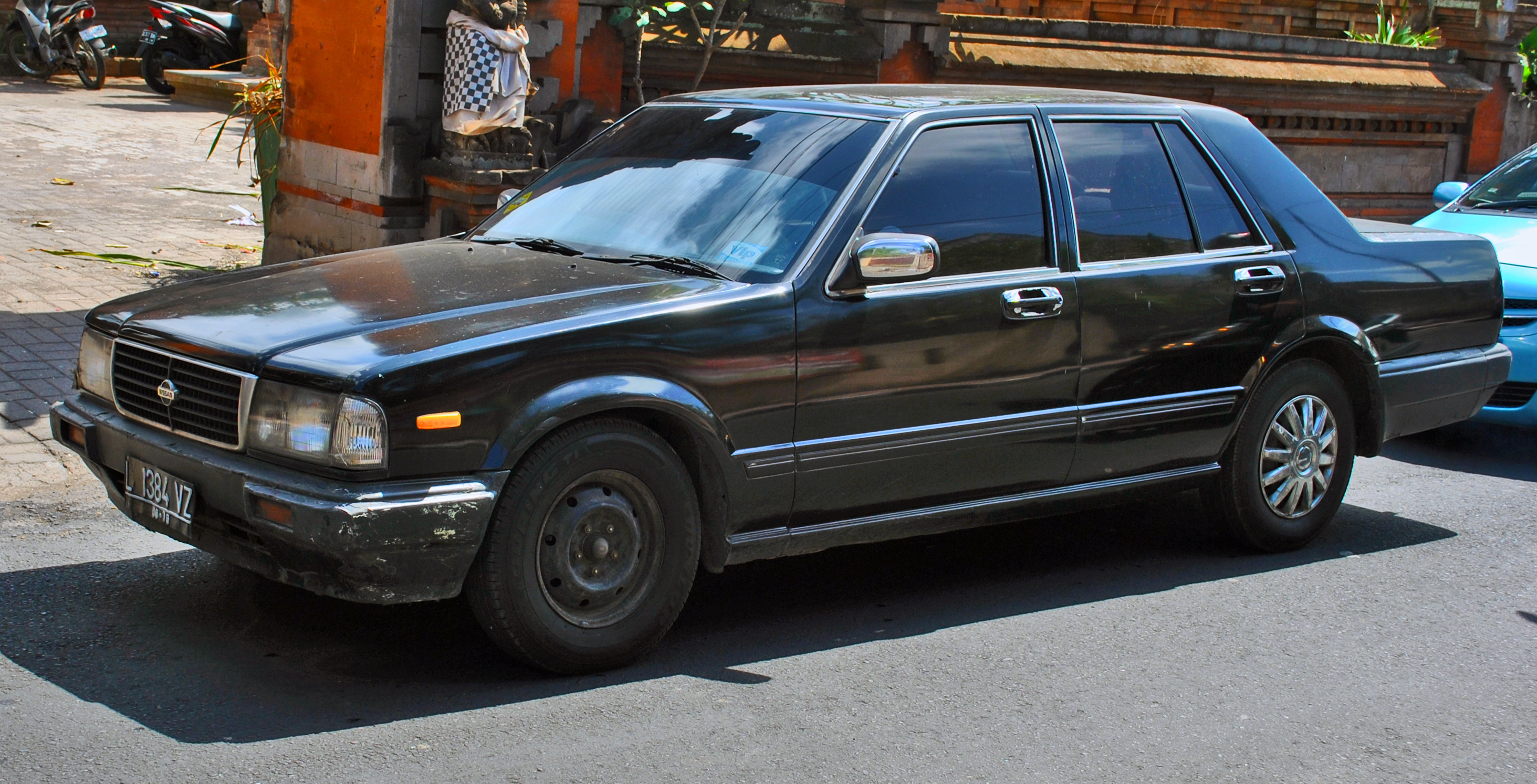 A then luxurious, now mistreated, Nissan Cedric, around Denpasar, Bali, Indonesia. Most Cedrics in Indonesia were possibly formerly used as taxicab. Different wheels.